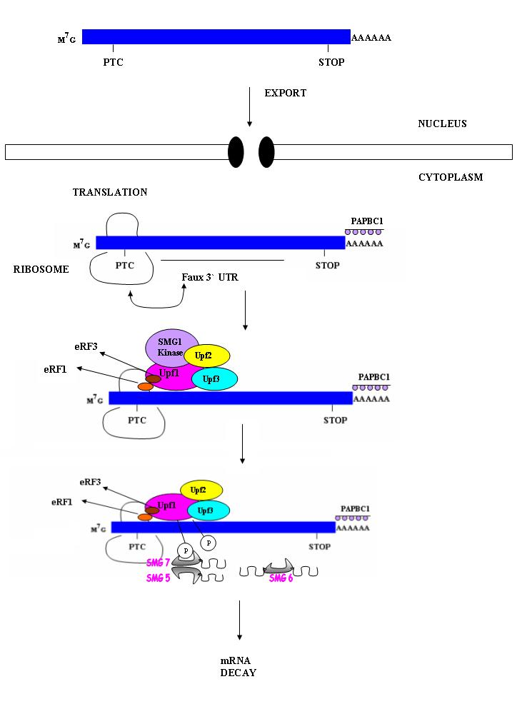 invert mechanism of NMD